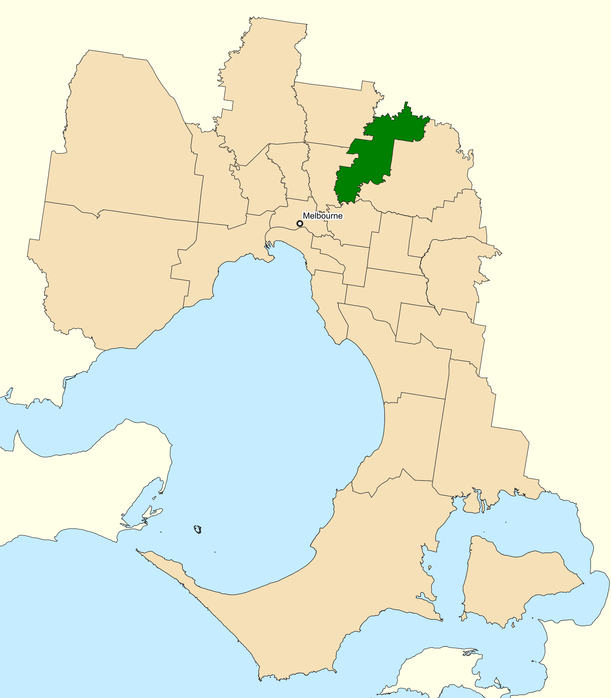 Location of the Australian federal electoral division of Jagajaga (dark green) in Greater Melbourne, Victoria as of the 2019 Australian federal election. Incorporates or developed using Administrative Boundaries ©PSMA Australia Limited licensed by the Commonwealth of Australia under Creative Commons Attribution 4.0 International licence (CC BY 4.0).